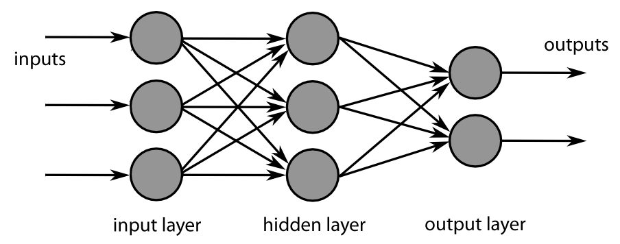 A Neural network with two layers.